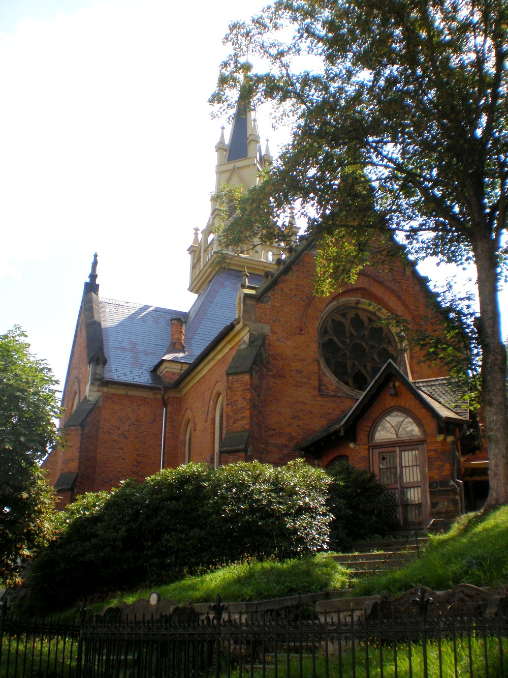 St. Lucas Church (anglicanism) in Karlovy Vary, Czech Republic.